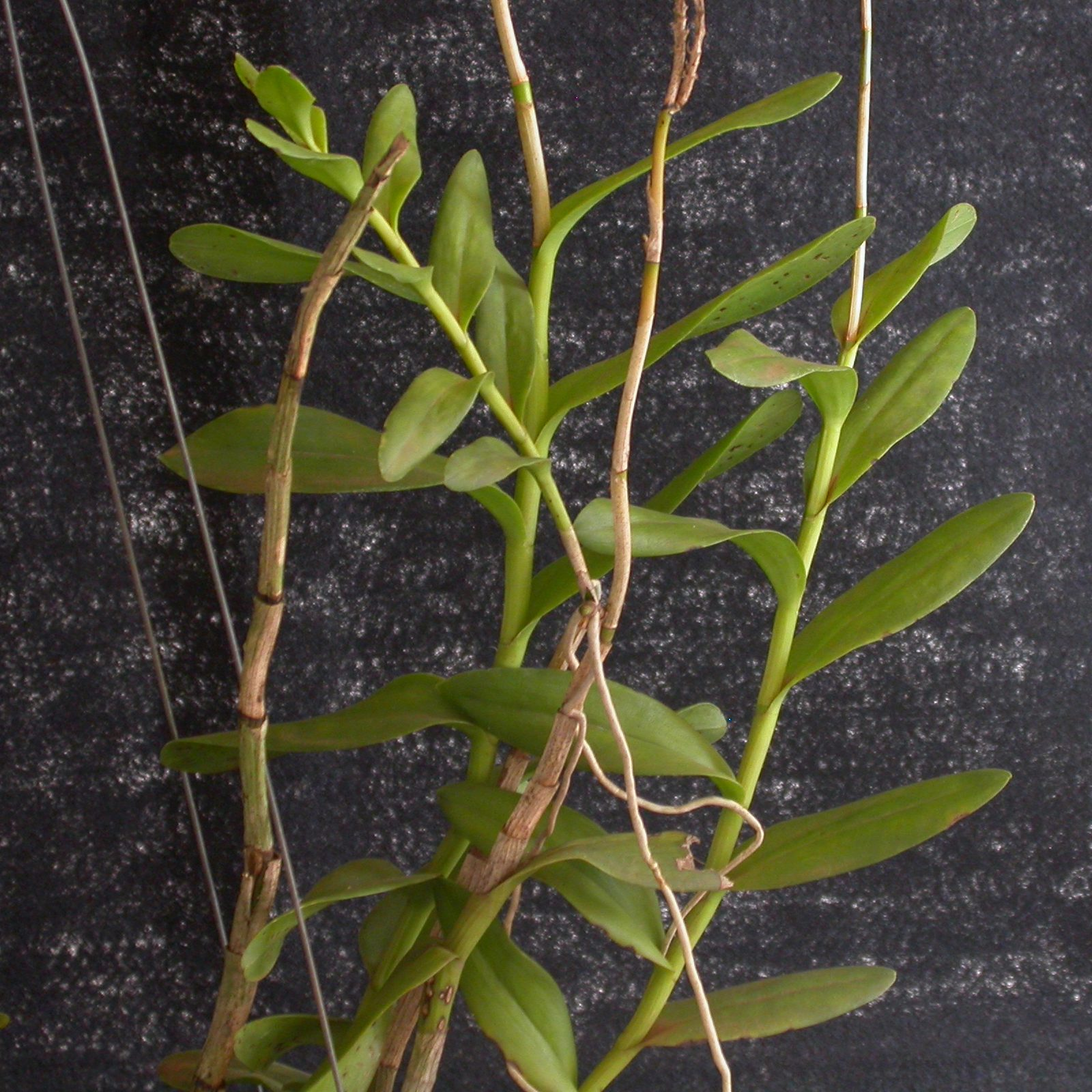 Epidendrum denticulatum